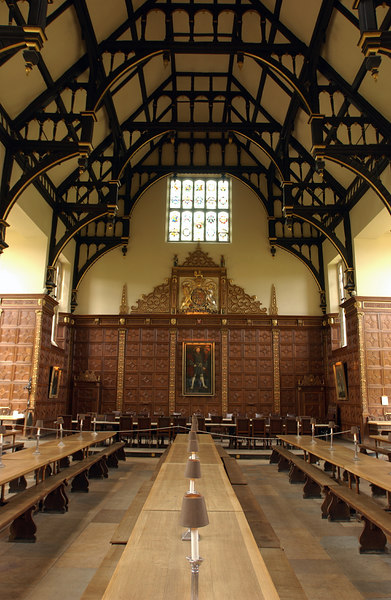 Trinity College, Cambridge. Dining Hall.